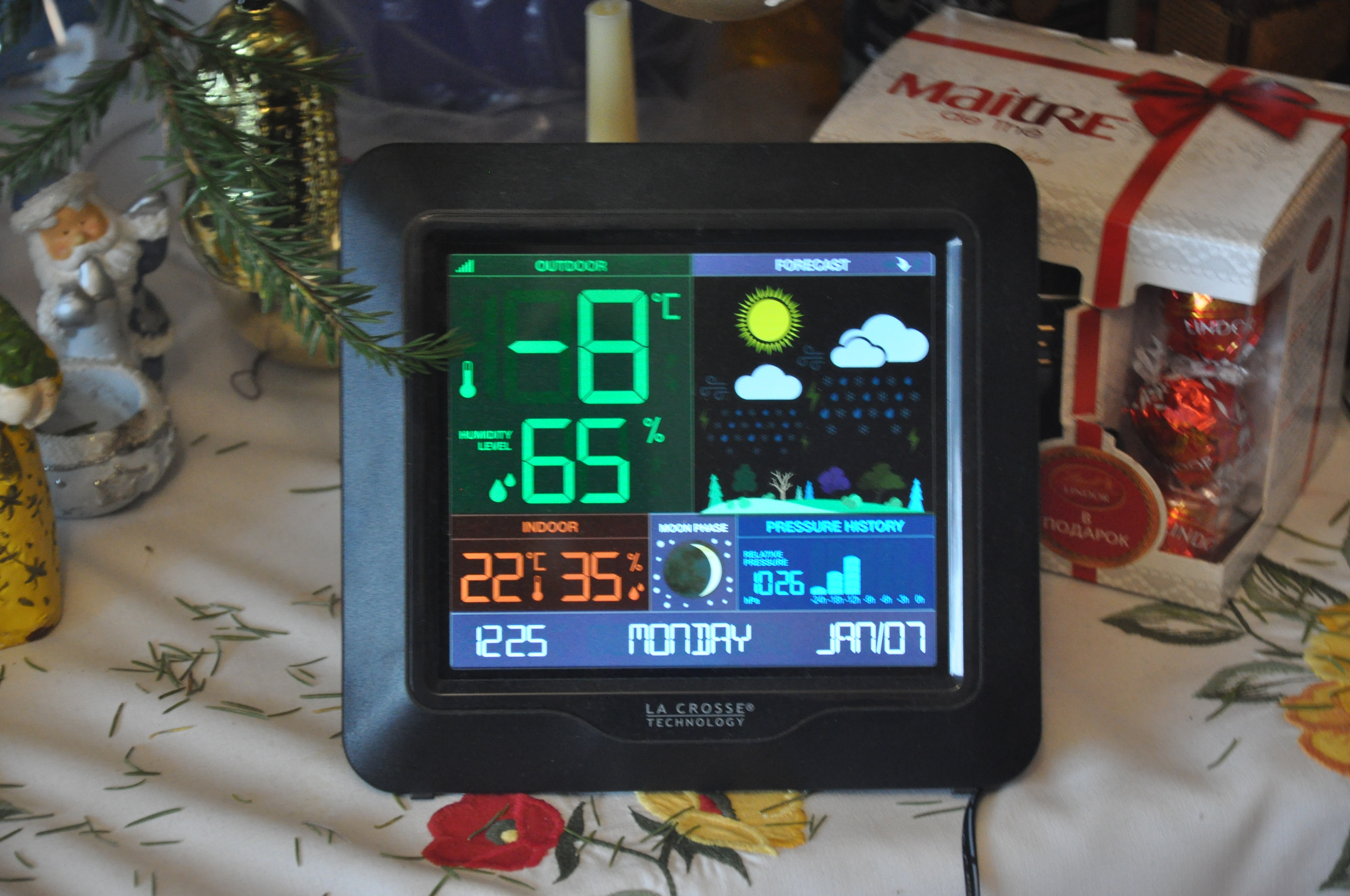 La Crosse Technology Weather Station S84107